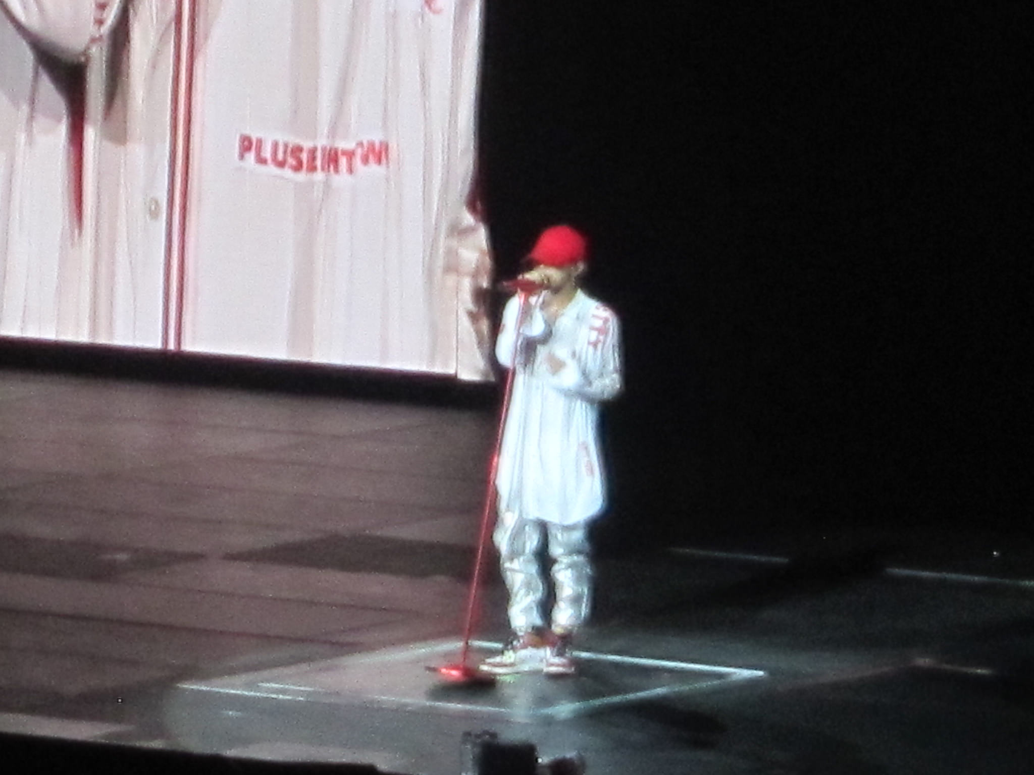 G-Dragon first solo concert in Sydney, Australia on August 5th, 2017